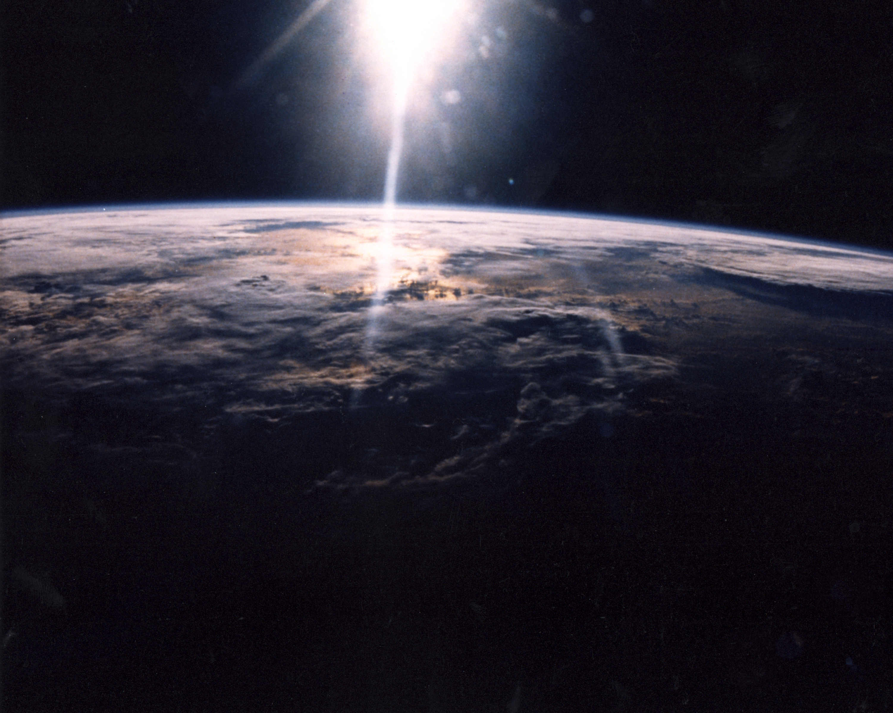 A 35mm camera was used to photograph sunlight over a cloud- covered Earth surface by STS-29 crewmembers onboard Discovery, Orbiter Vehicle (OV) 103. This photographic frame was among NASA's STS-29 photo release on Monday, March 20,1989. Discovery was launched on March 18,1989, with the crew of Michael L. Coats (Commander), John E. Blaha (Pilot), James P. Bagian (Mission Specialist), James F. Buchli (Mission Specialist), and Robert C. Springer (Mission Specialist).